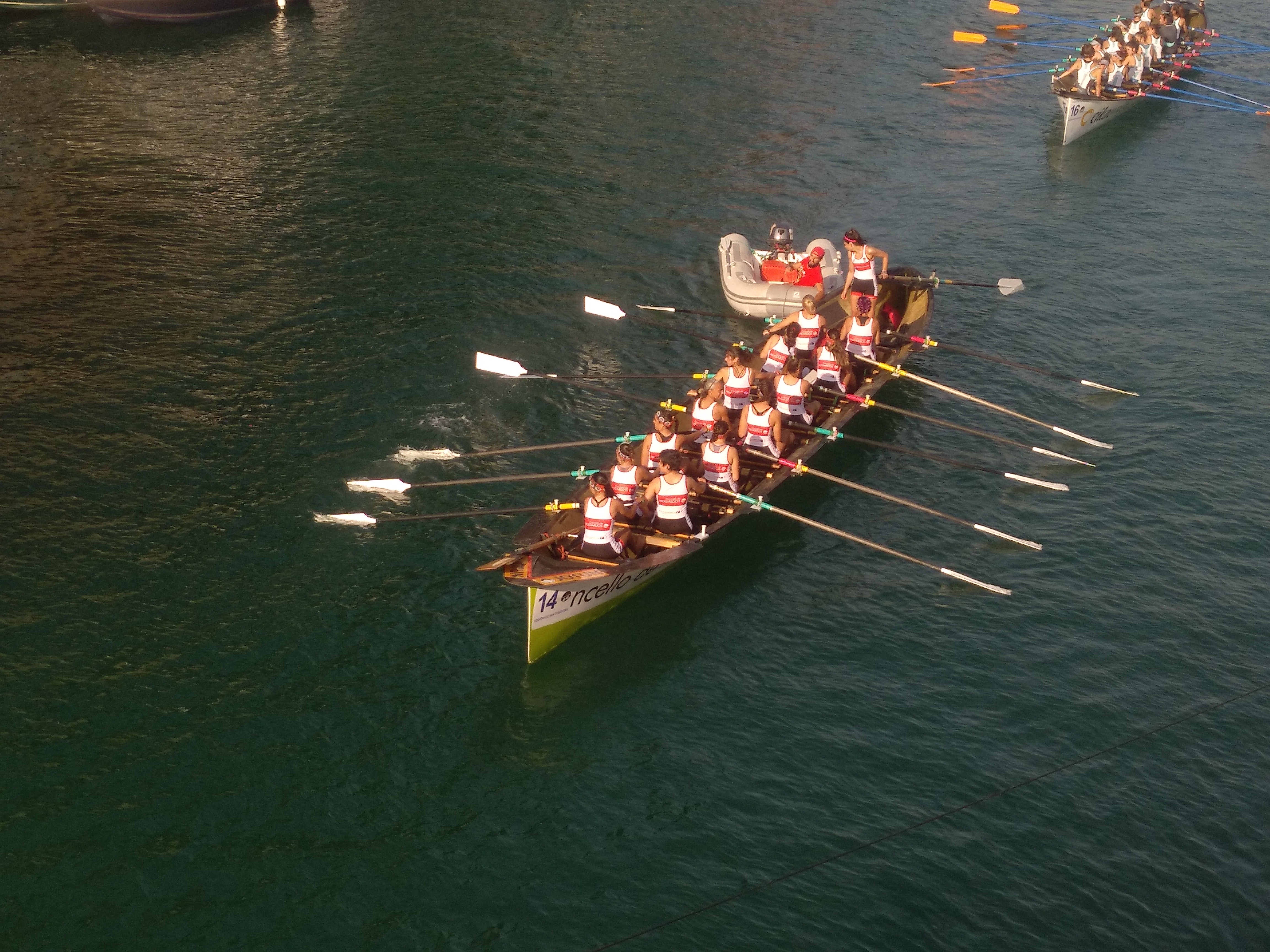 Club de Mar Mugardos, women, Flag of La Concha, 2018